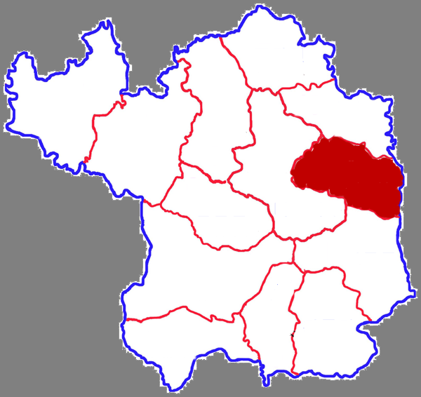 Location of Yanchang county in Yan'an city, China